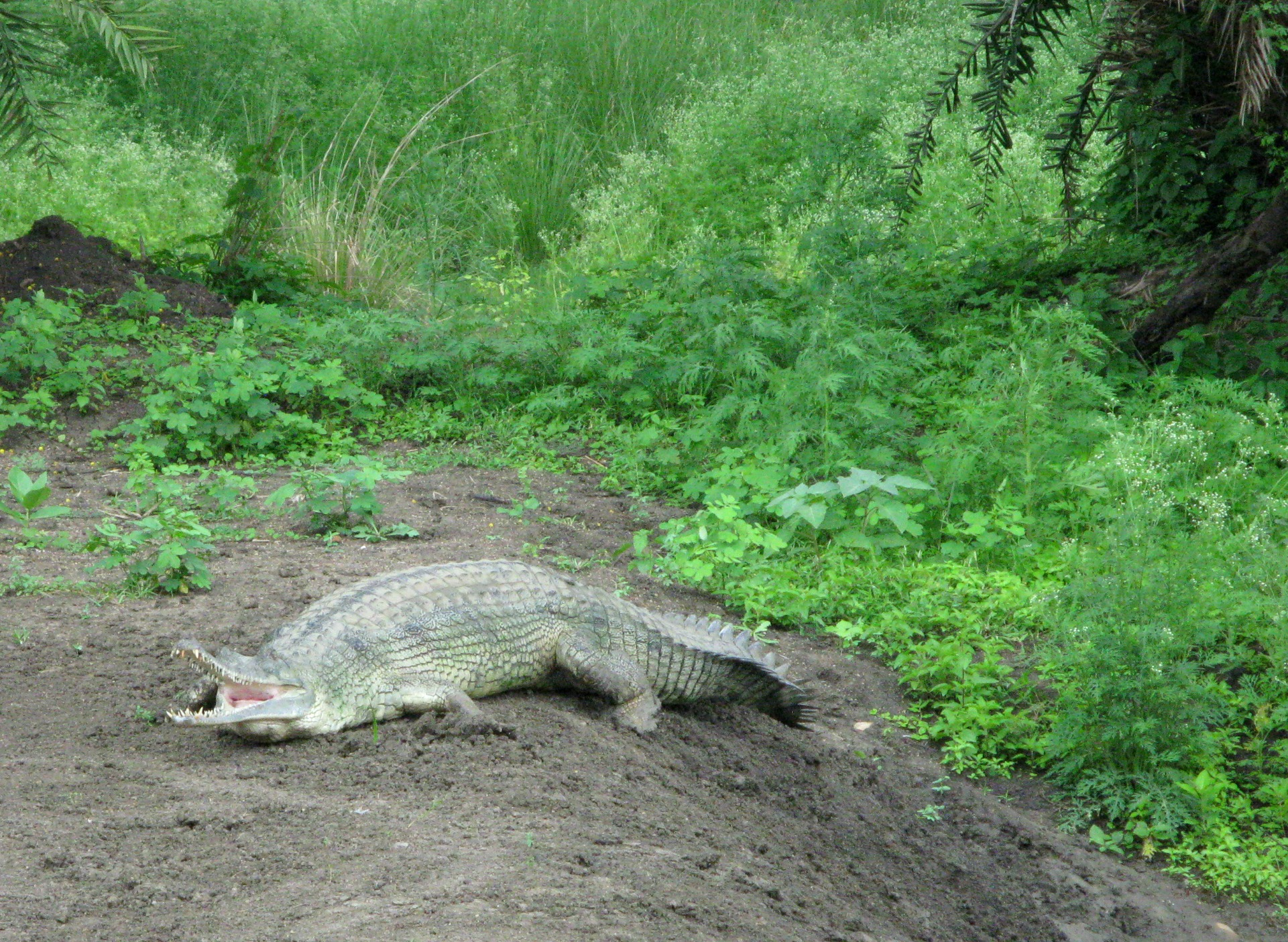 large number of crocodiles can be easily spotted at Van vihar National park